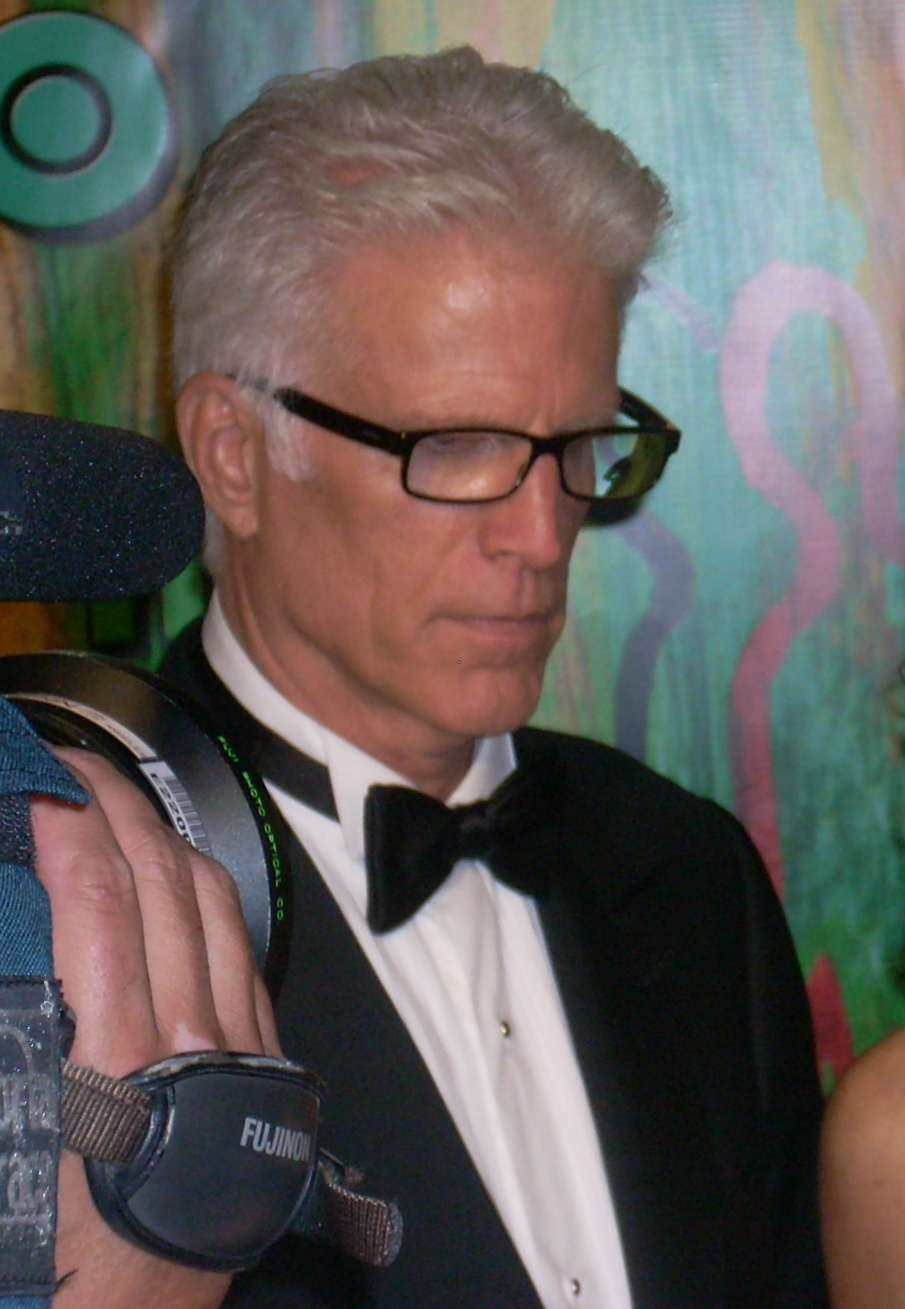 HBO Post-Emmys Party, Pacific Design Center, Sept. 21, 2008